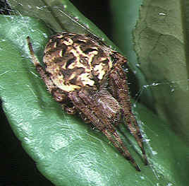 female Neoscona scylla from Okinawa.